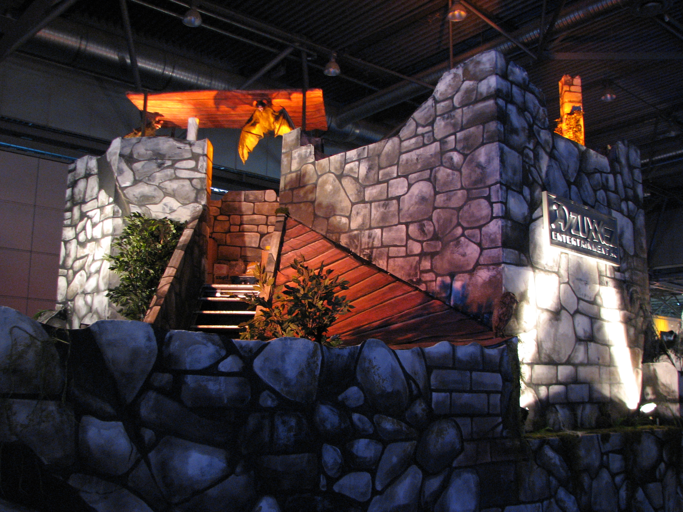 Two Worlds booth on Games Convention 2008